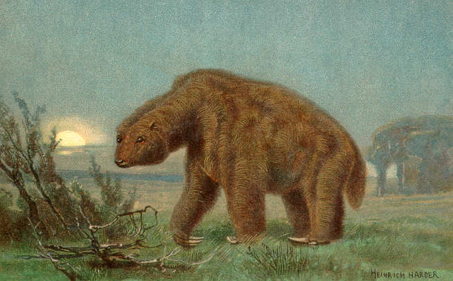 Megatherium